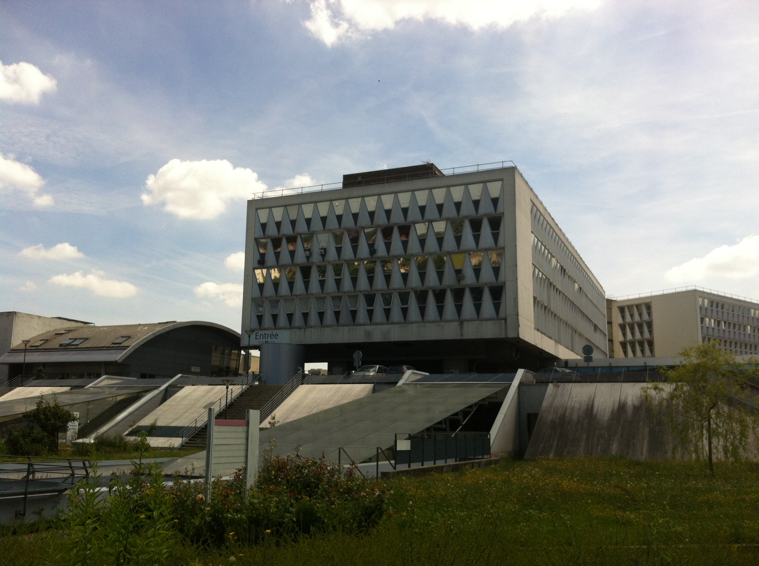 Hôpital Antoine-Béclère, Clamart, France